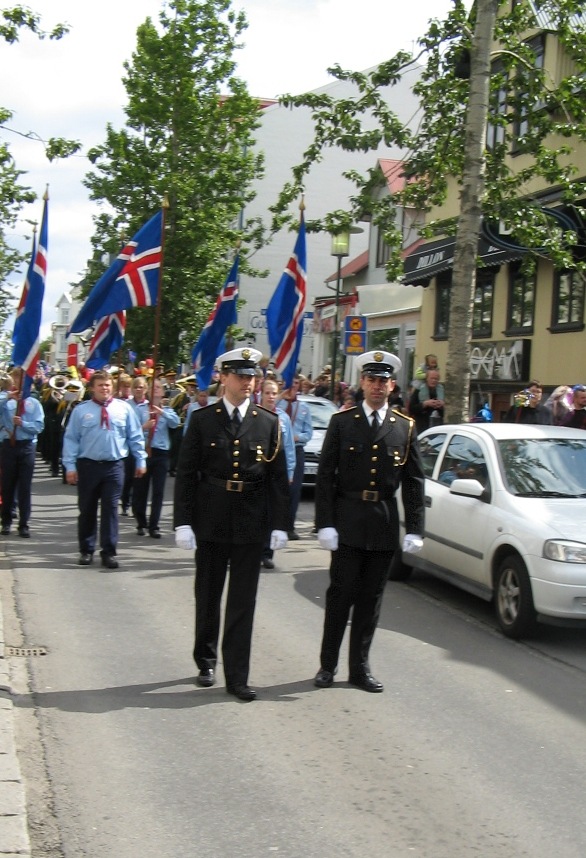 The festival procession in Reykjavik on 17 June, the National Day of Iceland, 2007The Reykjavik procession is headed by two motorized policemen and then two policemen in dress uniforms after which follows the flag procession (fánaborg) of the Scouts and then the Reykjavík Marching Band. After the band the procession of people follows. The procession is usually organised from Hlemmur, down Laugavegur, the main shopping street to the city center on Laekjartorg.